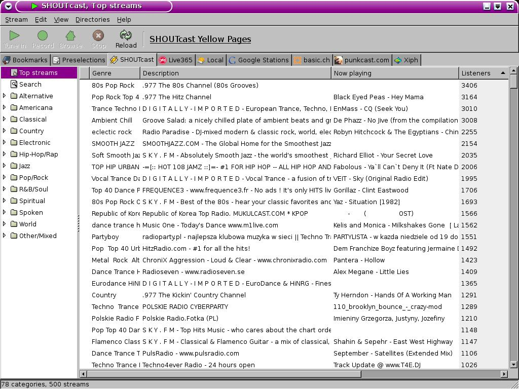 Author: Scott Lewin. This is simpy a screen shot of Streamtuner on my Kubuntu (Linux) desktop.